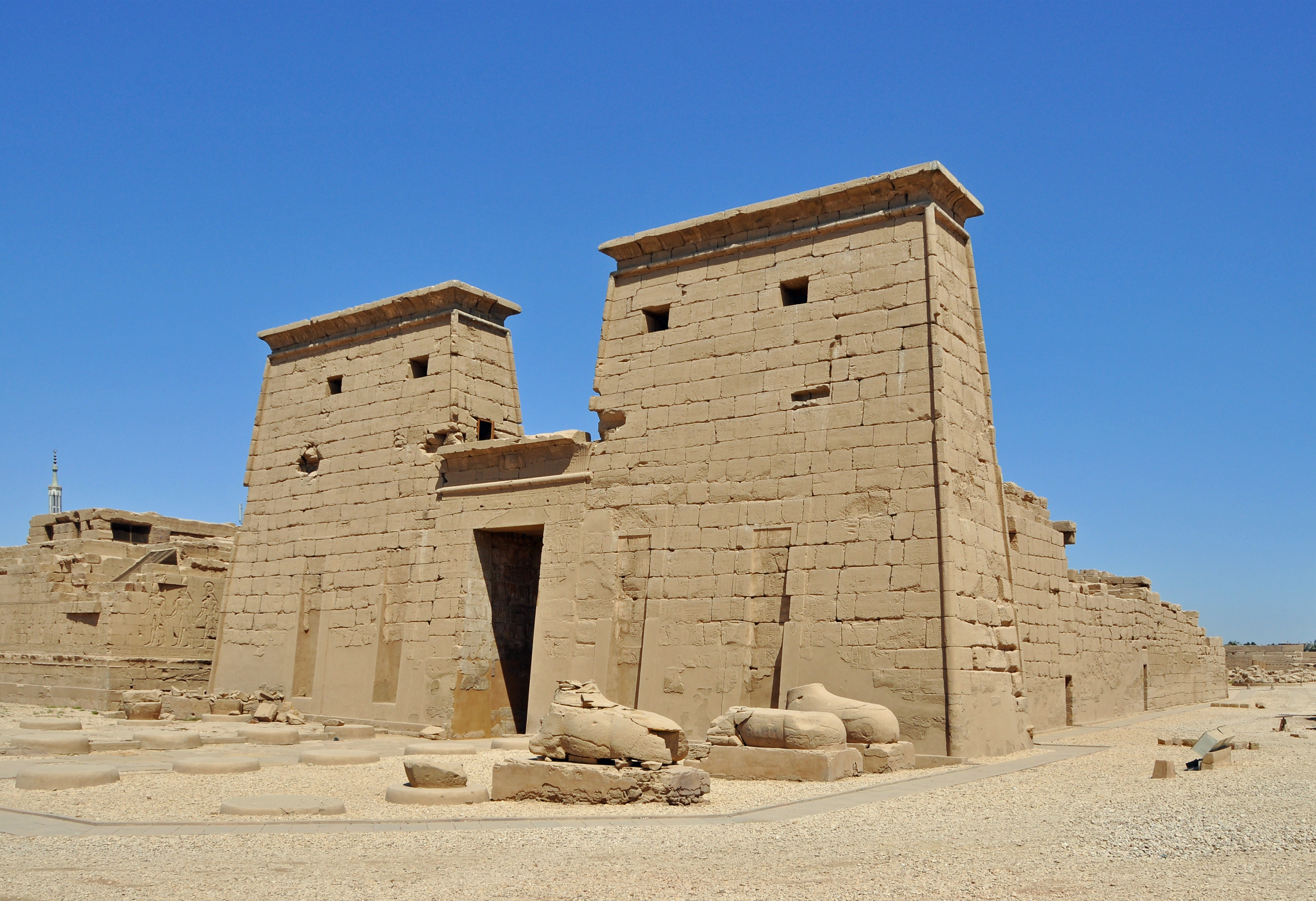 Karnak (Luxor, Egypt): Khonsu Temple